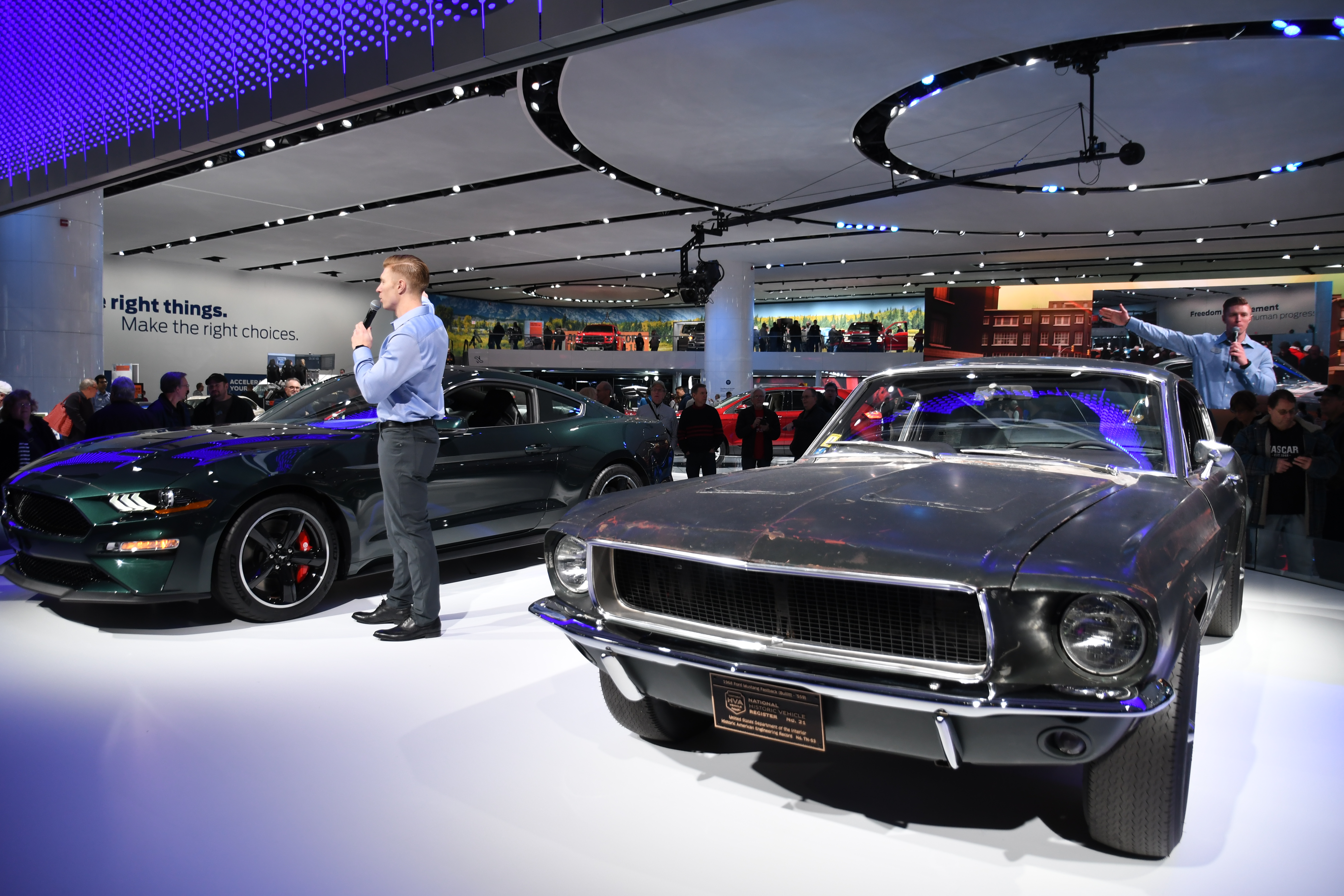 The original 1968 Mustang used in the Steve McQueen movie "Bullitt" and the 2019 Ford Mustang Bullitt tribute car were on display in the Ford exhibit. A scene from public display days of the 2018 North American International Auto Show held in Cobo Center in downtown Detroit, Michigan. January, 2018